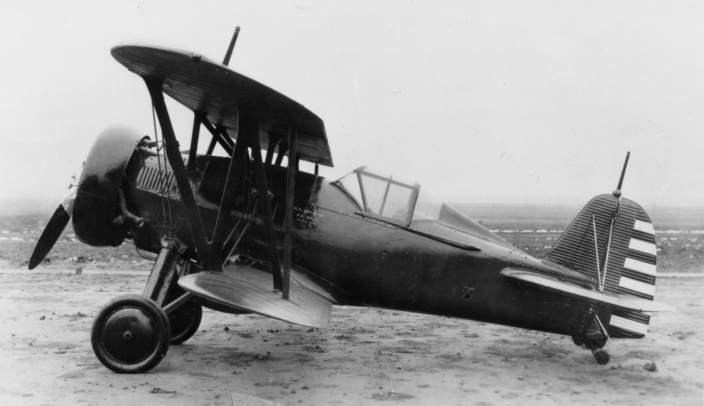 PictionID:41899497 - Title:Ray Wagner Collection Image - Catalog:16_000802 Boeing P-12F 32-101 - Filename:16_000802 Boeing P-12F 32-101.tif - - Ray Wagner was Archivist at the San Diego Air and Space Museum for several years and is an author of several books on aviation --- ---Please Tag these images so that the information can be permanently stored with the digital file.---Repository: San Diego Air and Space Museum